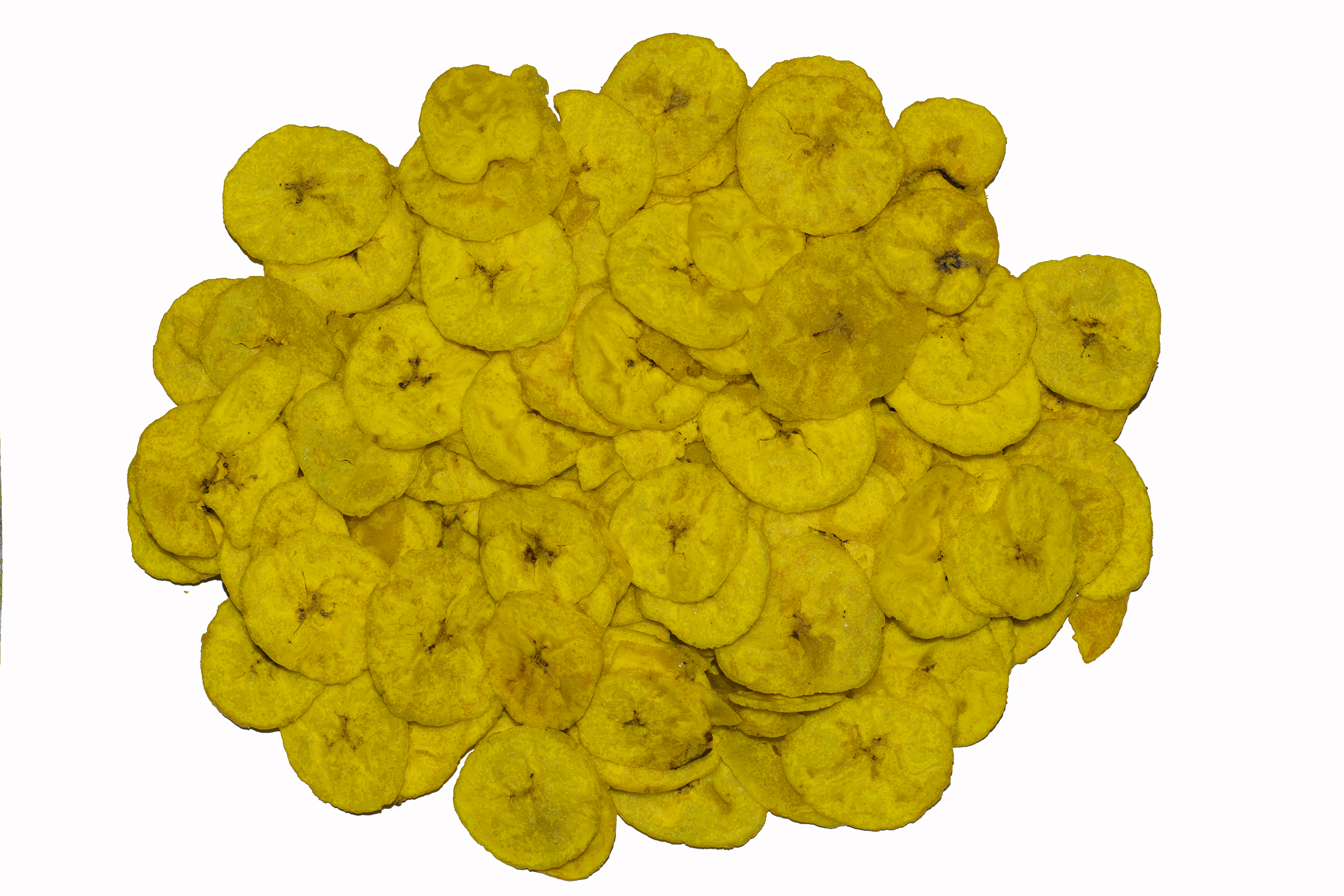 Banana chip